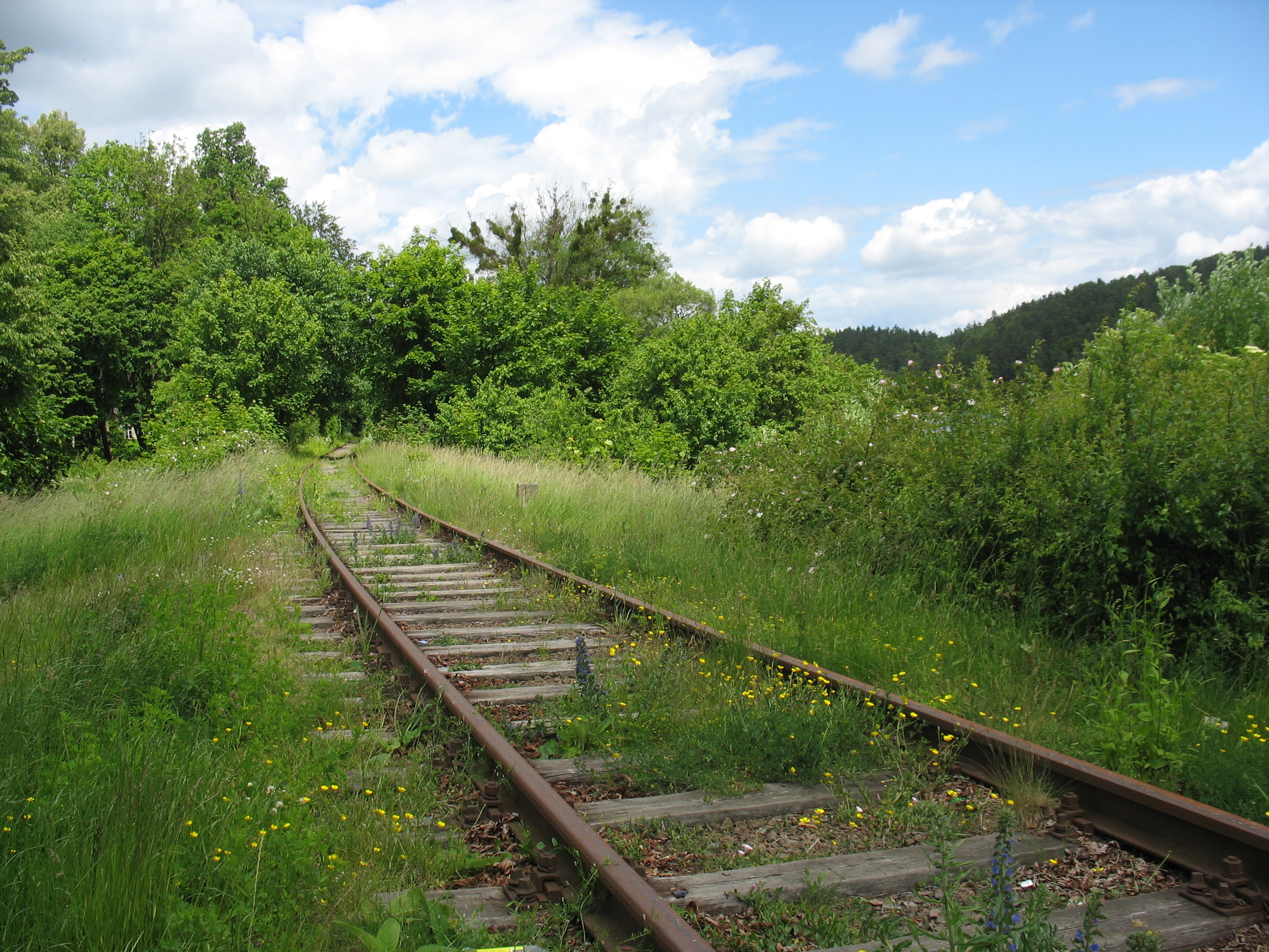 railwaytrack in Lapino, Poland